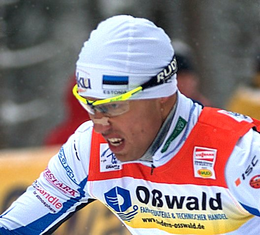 Algo Kärp at the Tour de Ski 2010 in Oberhof